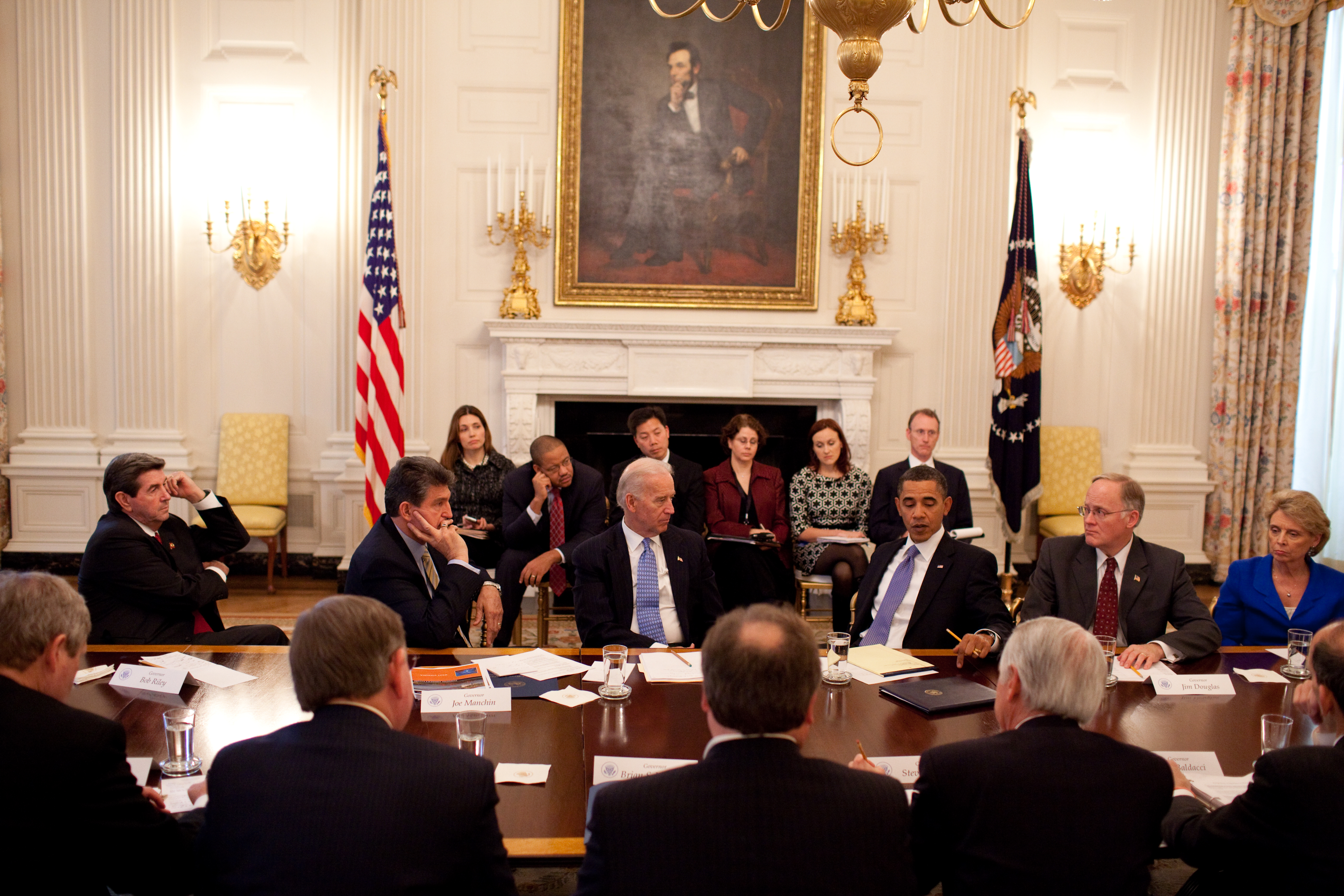 President Barack Obama and Vice President Joe Biden speak to a bipartisan group of governors, including from left , Alabama Gov. Bob Riley, West Virginia Gov. Joe Manchin, Vermont Gov. Jim Douglas, and Washington Gov. Chris Gregoire, about building a clean energy economy, in the State Dining Room of the White House, Feb. 3, 2010. (Official White House Photo by Pete Souza)